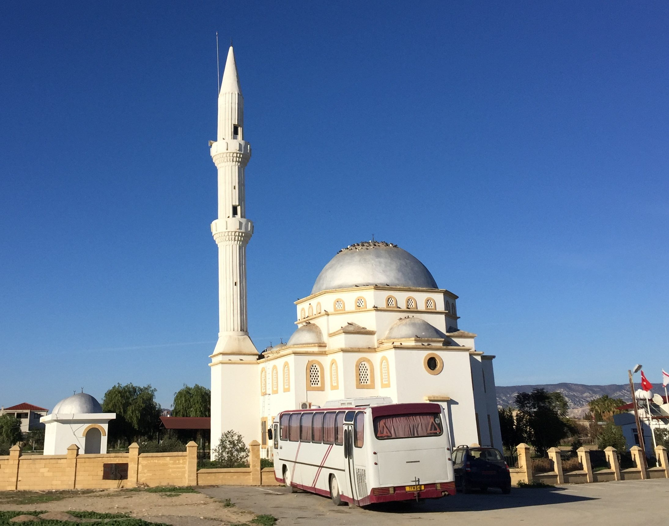 The newly built mosque in the village of Lefkoniko/Geçitkale (Lefkonuk) in Northern Cyprus.